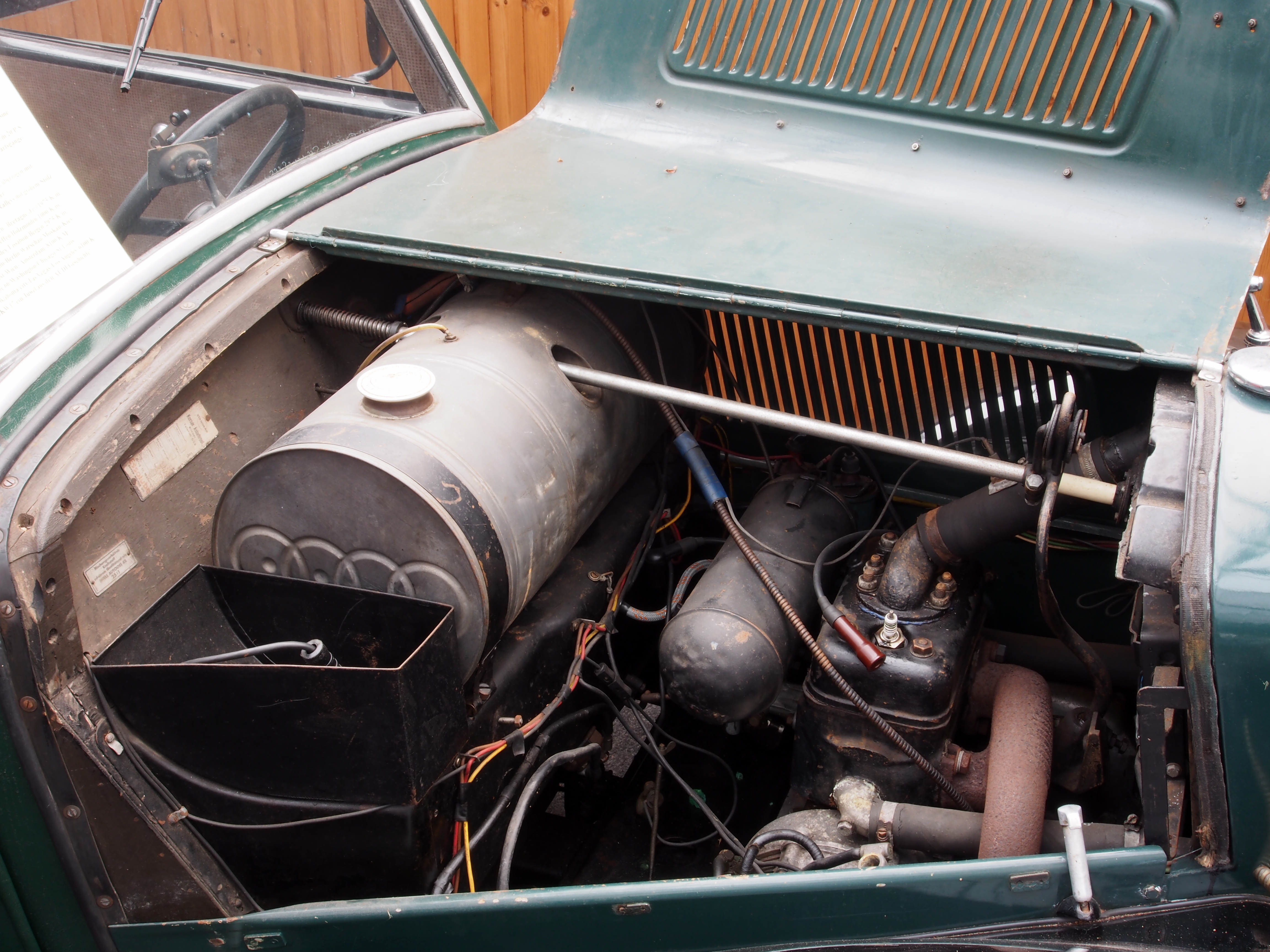 Photographed in the Auto-Union Museum in Bergen, The Netherlands.